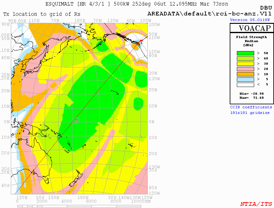 I have done some extensive computations on the feasibility of an RCI SW relay station in British Columbia, this image is the result of some of my calculations.